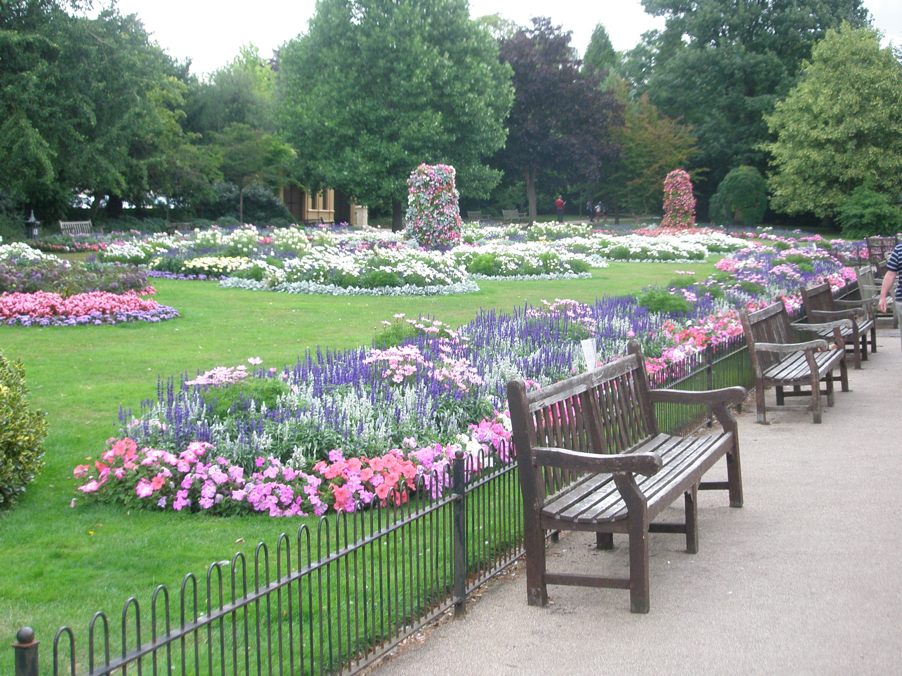 Jephson Garden, Leamington Spa.